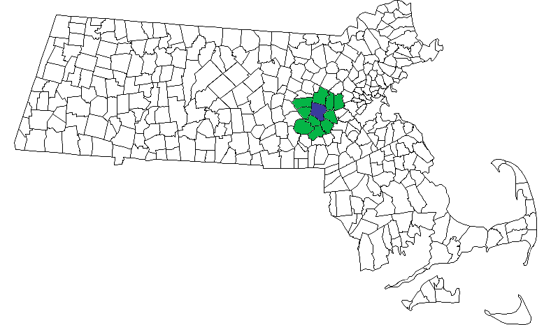 Map of the MetroWest Regional Transit Authority (MWRTA) service area in green with the central hub town of Framingham in blue